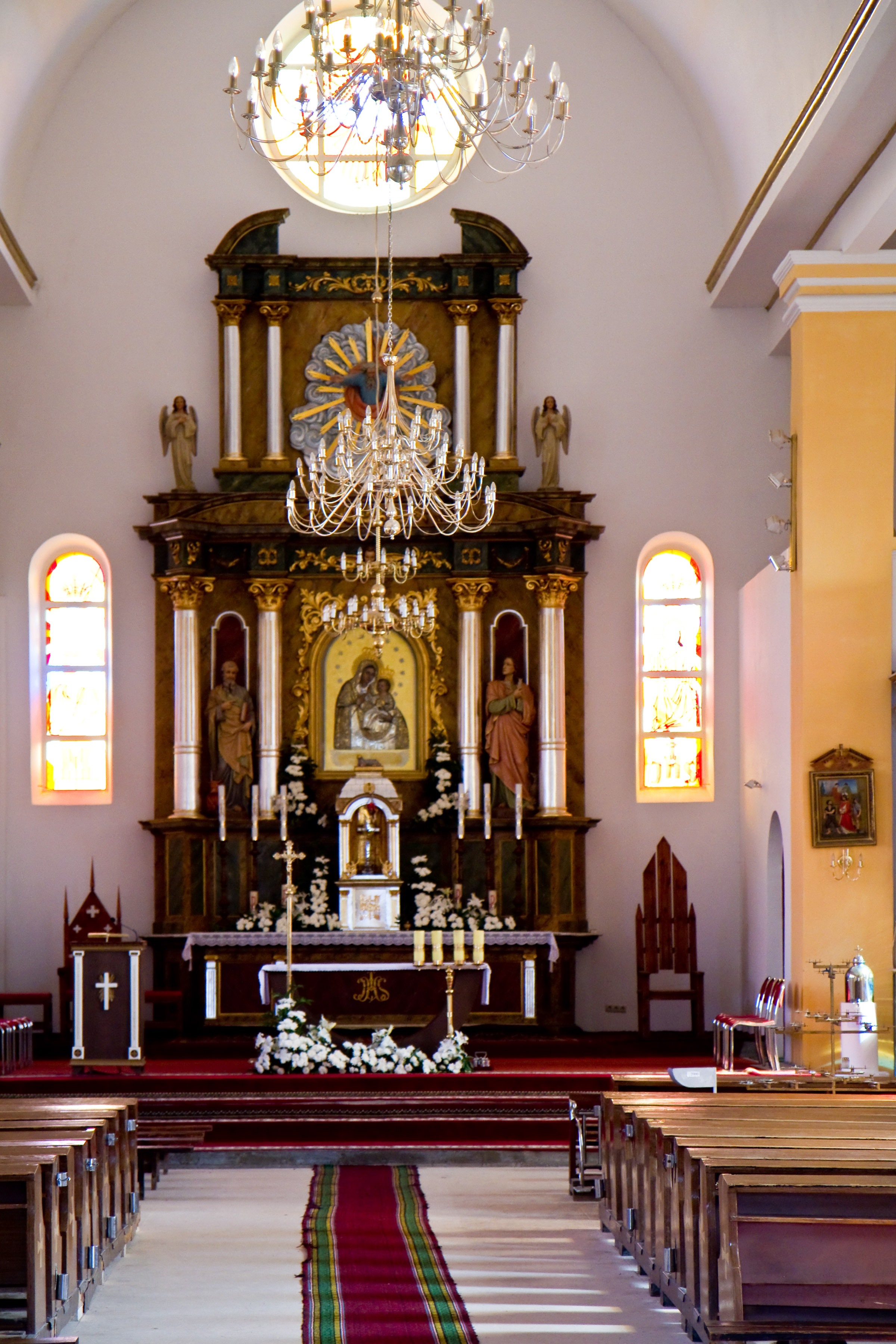 Catholic church of Virgin Mary, Brasłaŭ. Viciebsk province, Belarus.